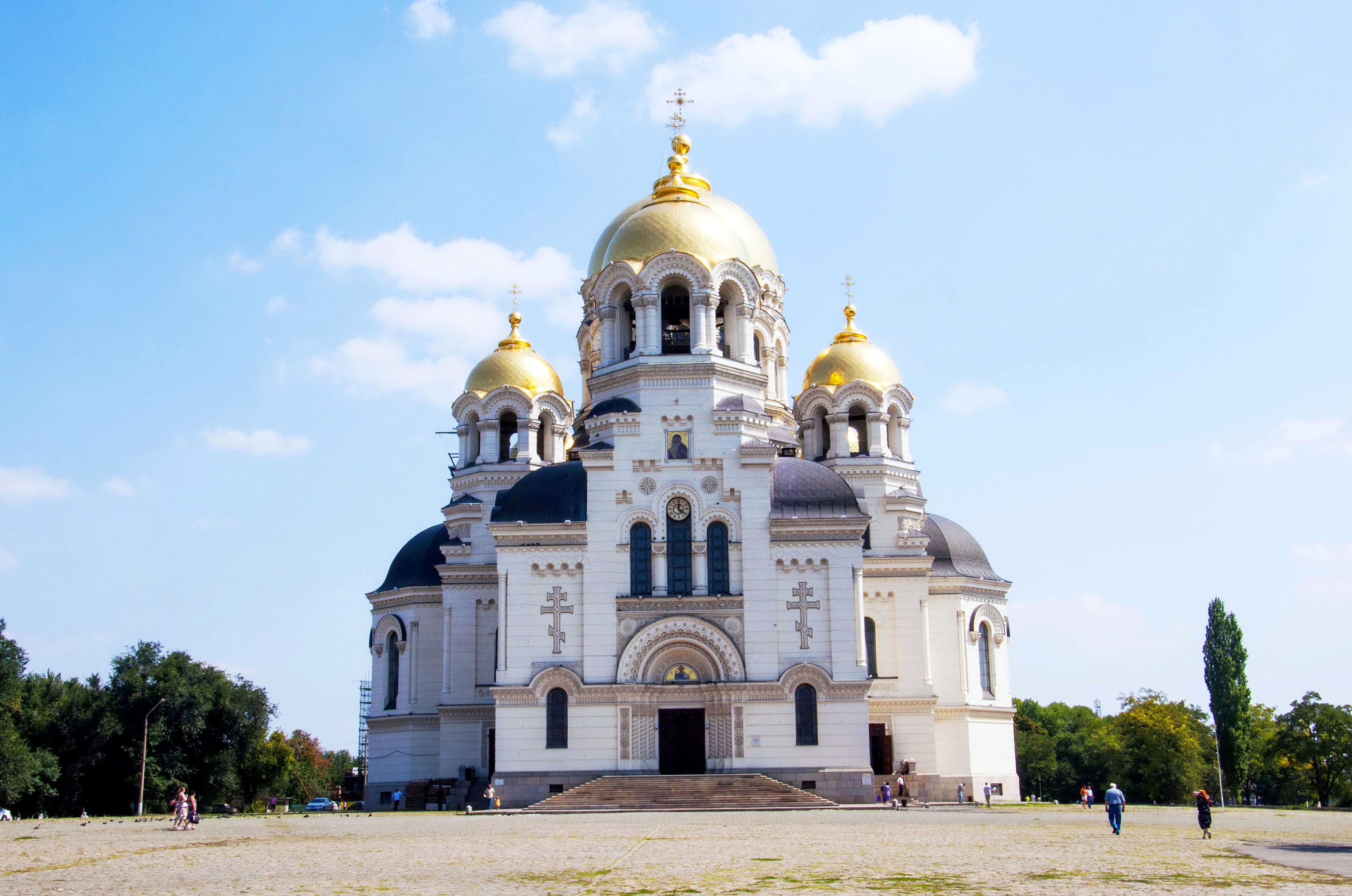 Military Voskresensky Cathedral, the tomb of Heroes of the Patriotic war of 1812: M. I. Platov, Century Century Orlov-Denisov, I. E. Efremov (Rostov region, Novocherkassk, Ermaka square, 1, Russia)